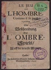 Frank-Germanic edition of Le Jeu De L'Hombre, Comme il se joué à present. Oder Beschreibung Des L'Ombre-Spiels/ Auff die neueste Manier.